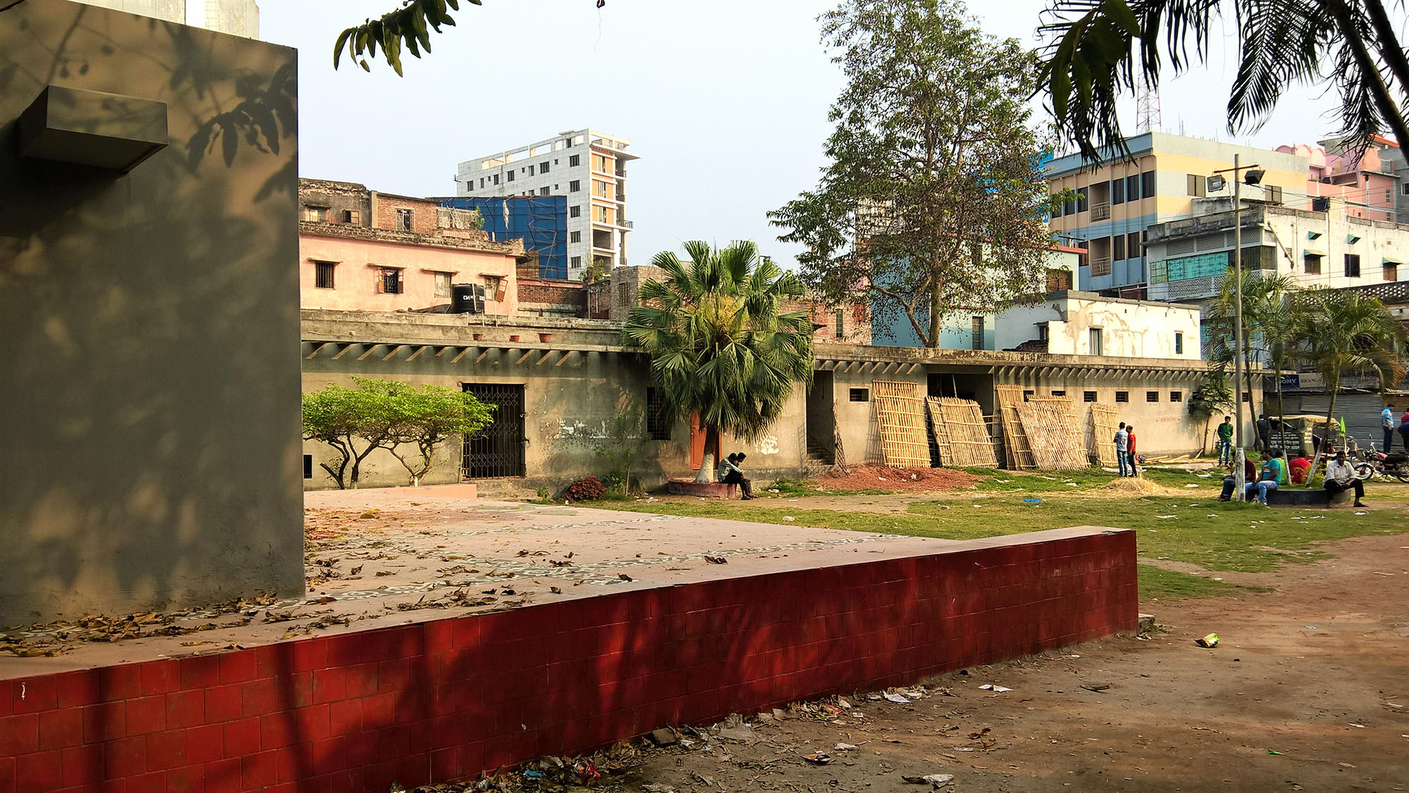 Bhuban Mohan Park Monument is one of the central monument in Rajshahi city for the martyrs of 21st February 1952 historical strike.